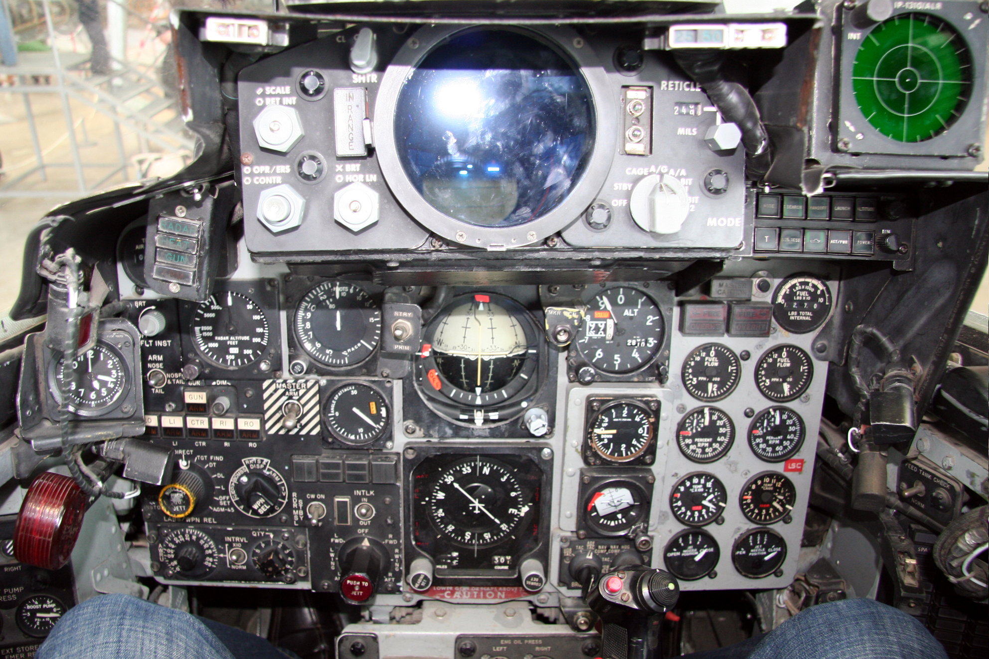 Cockpit of a McDonnell Douglas F-4E Phantom II (1968), exhibit at Flugwerft Oberschleißheim, Germany